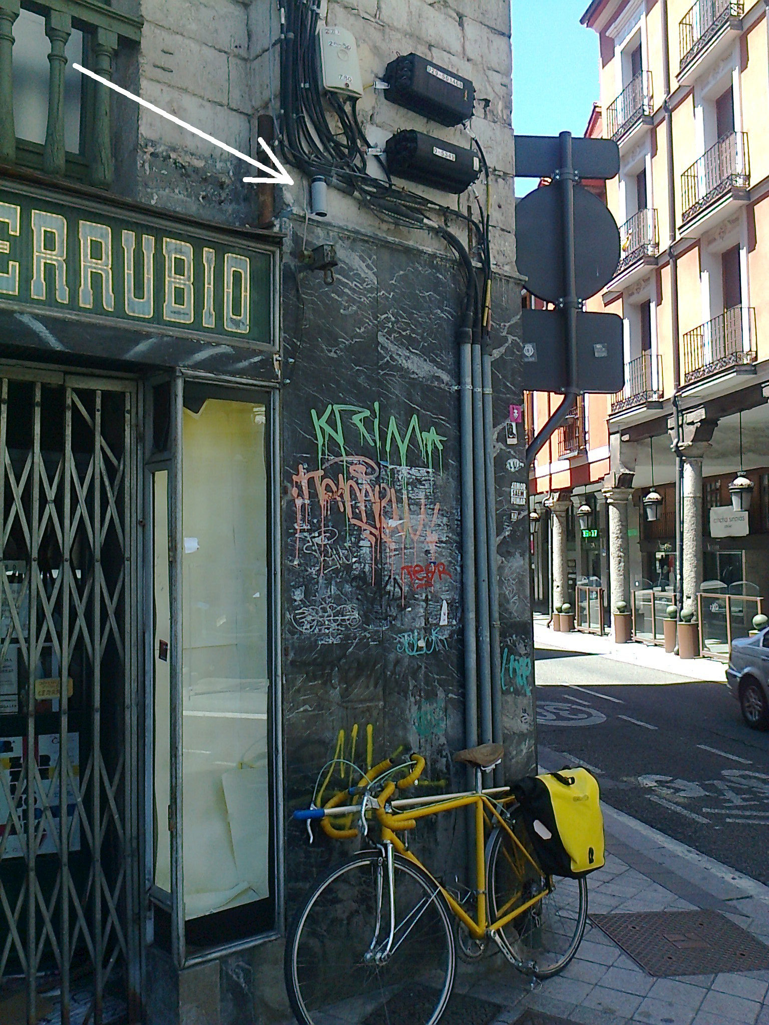 Solarigraphic camera fixed in a building in Valladolid, Spain